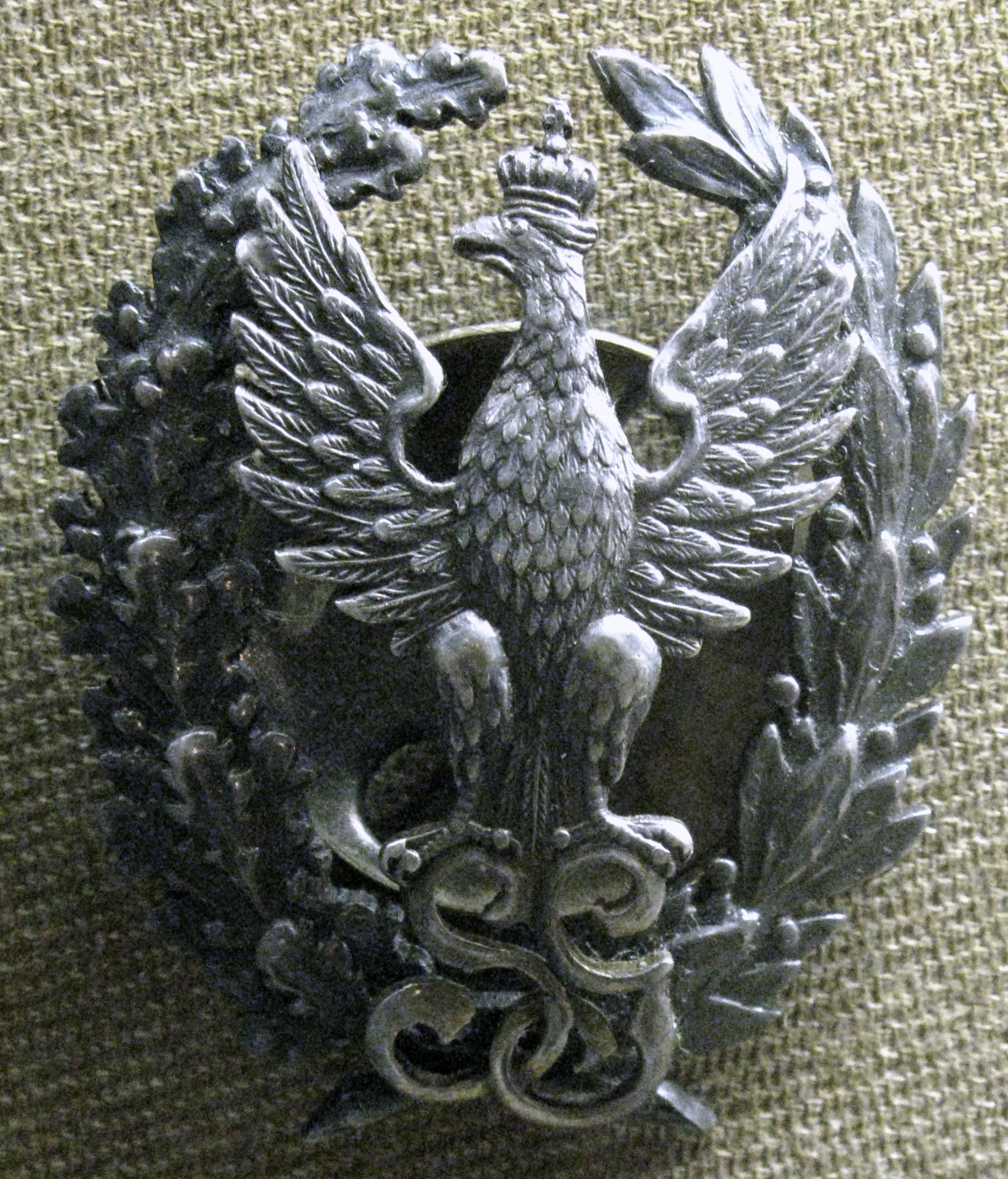 Badge for officers with an academic degree serving in the Polish General Staff during the Second Polish Republic (1918-1939).